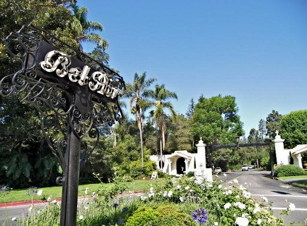 Photograph of the East Gate entrance to Bel Air, Los Angeles, California